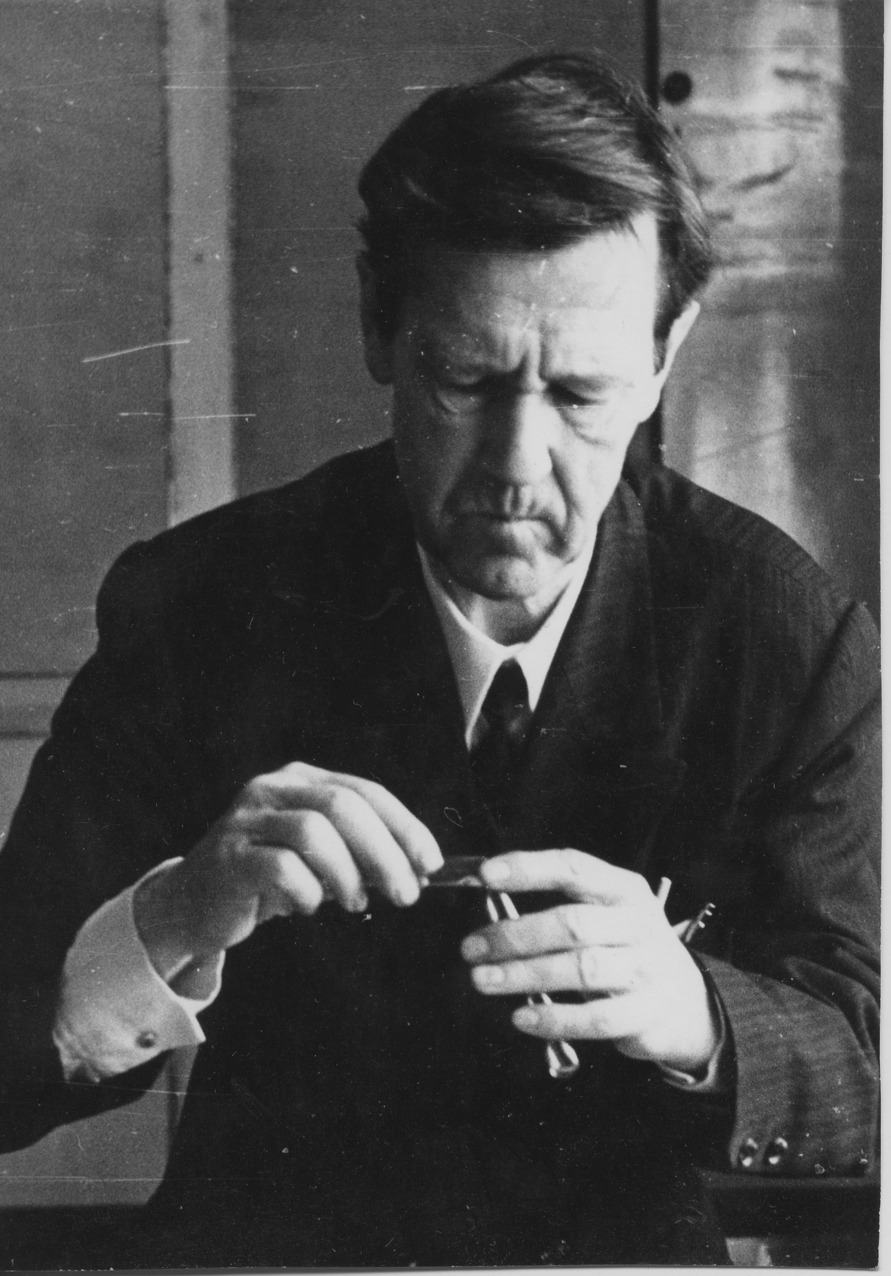 Russian scientist Vigorov, Leonid Ivavovich